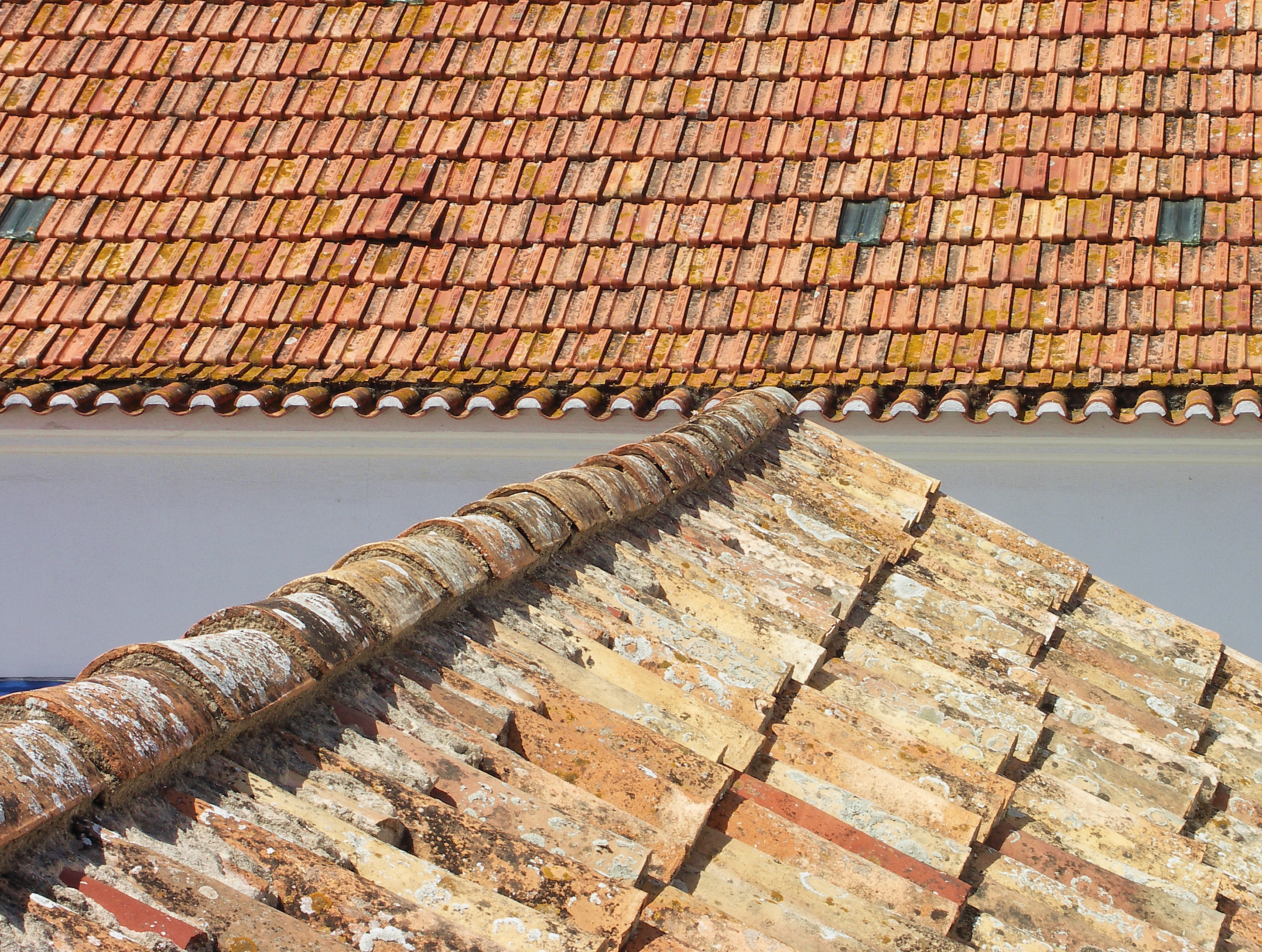 Portuguese roofs showing the two types of tiles still in use: the traditional (foreground) and the modern